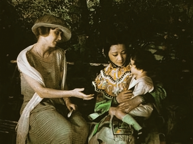 United States actress Anna May Wong holds Priscilla Moran in the 1922 Hollywood film The Toll of the Sea. Beatrice Bentley sits to the left.